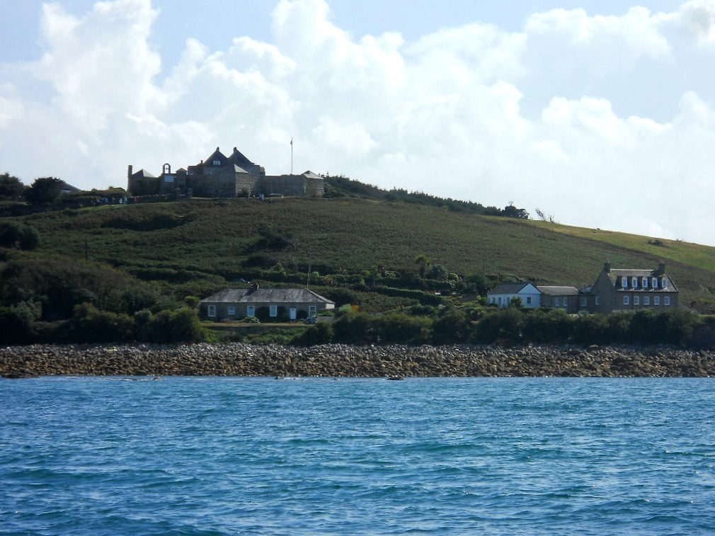 the garrison, isole scilly